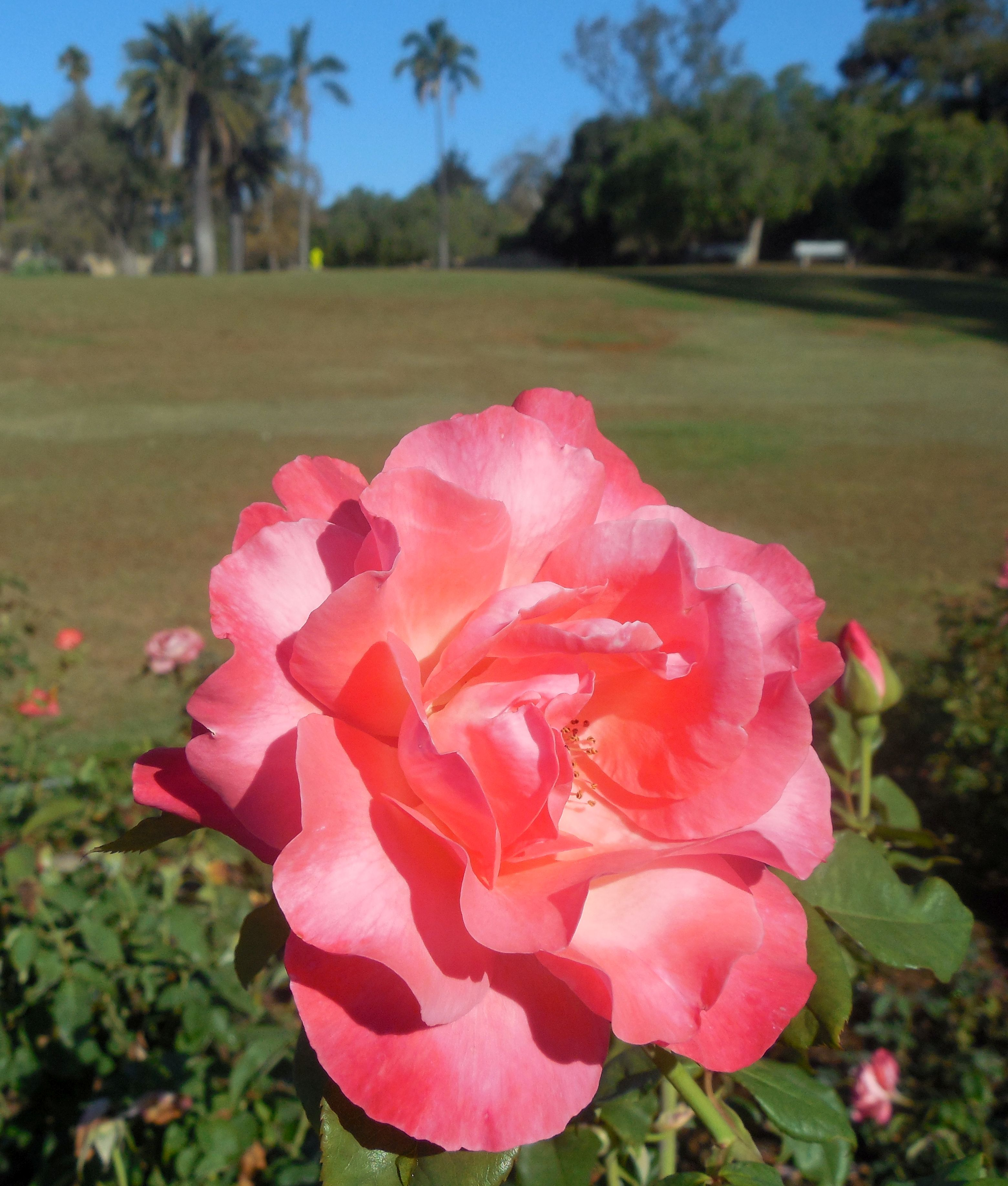 "Color Magic" (AARS 1978) cultivar rose at the A.C. Postel Memorial Rose Garden in Santa Barbara, California, 2015